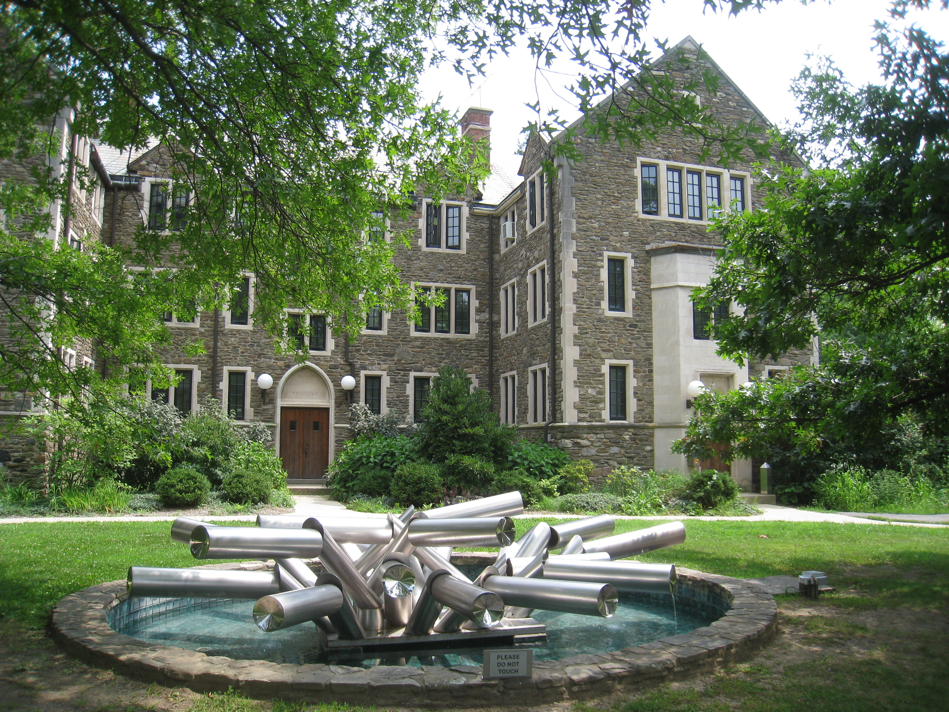 Bard College, Annandale-on-Hudson, New York, USA.